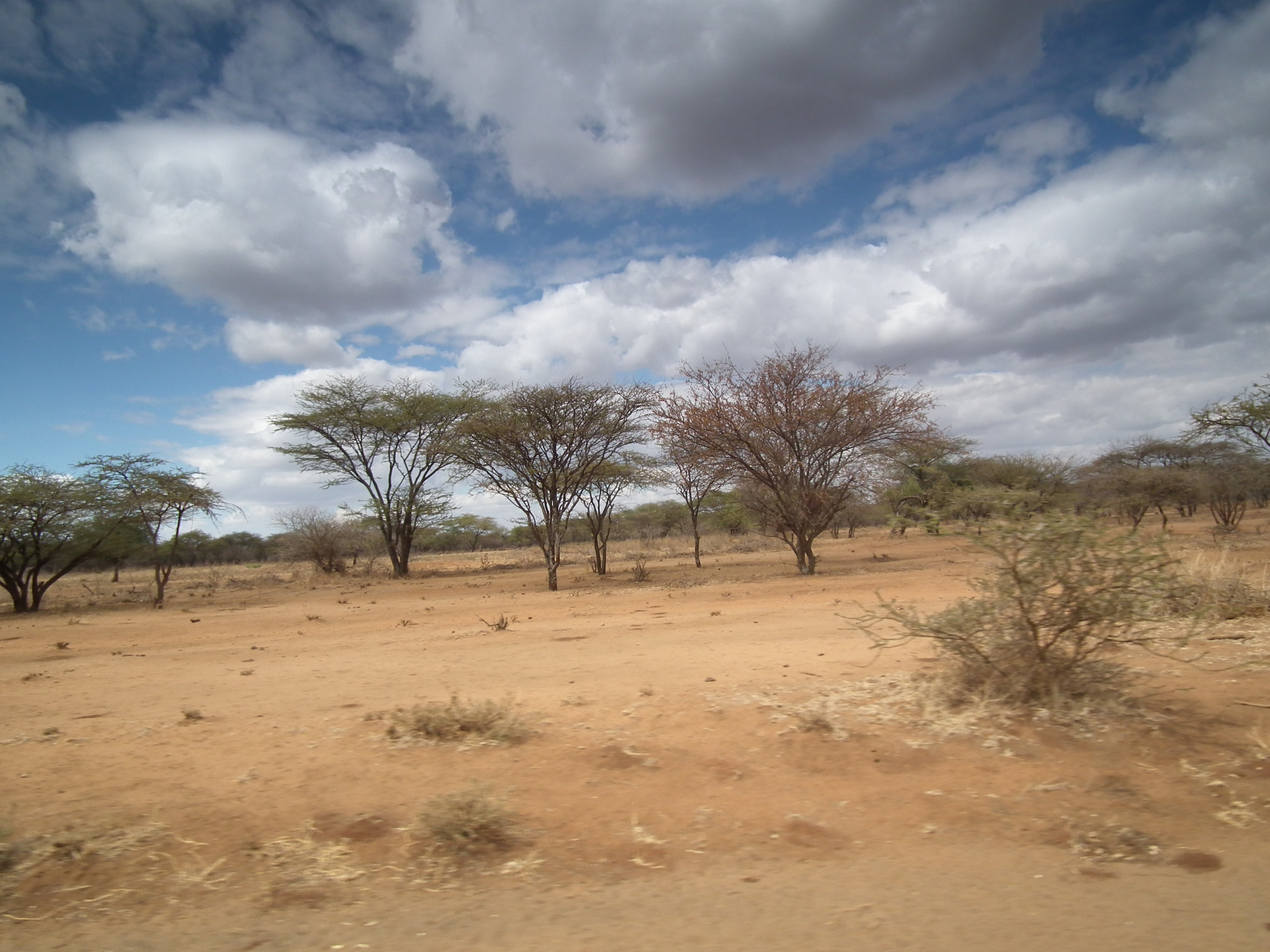 Flora of Tanzania. picture taken in Tanzania